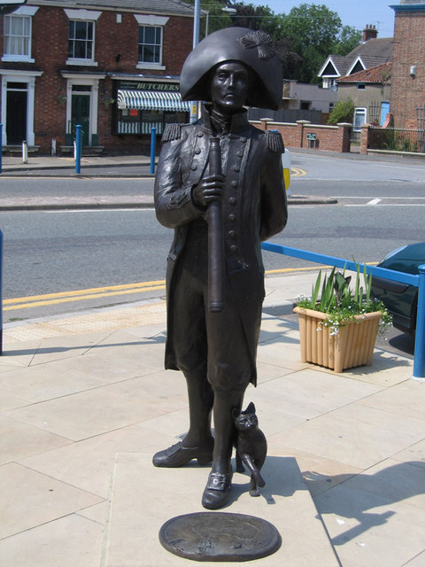 Statue of Matthew Flinders, Market Place, Donington, Lincs. Born in Donington in 1774, he was a naval captain and explorer who mapped much of the Australian coastline. The bronze statue, erected in March 2006, also features Trim, his cat, which travelled on voyages to Australia with him but disappeared on Mauritius.